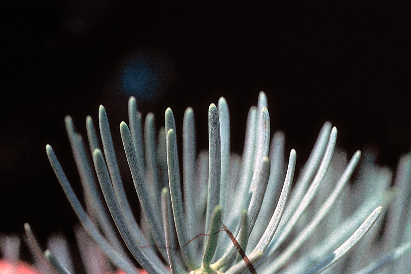 White Fir. Leaves.